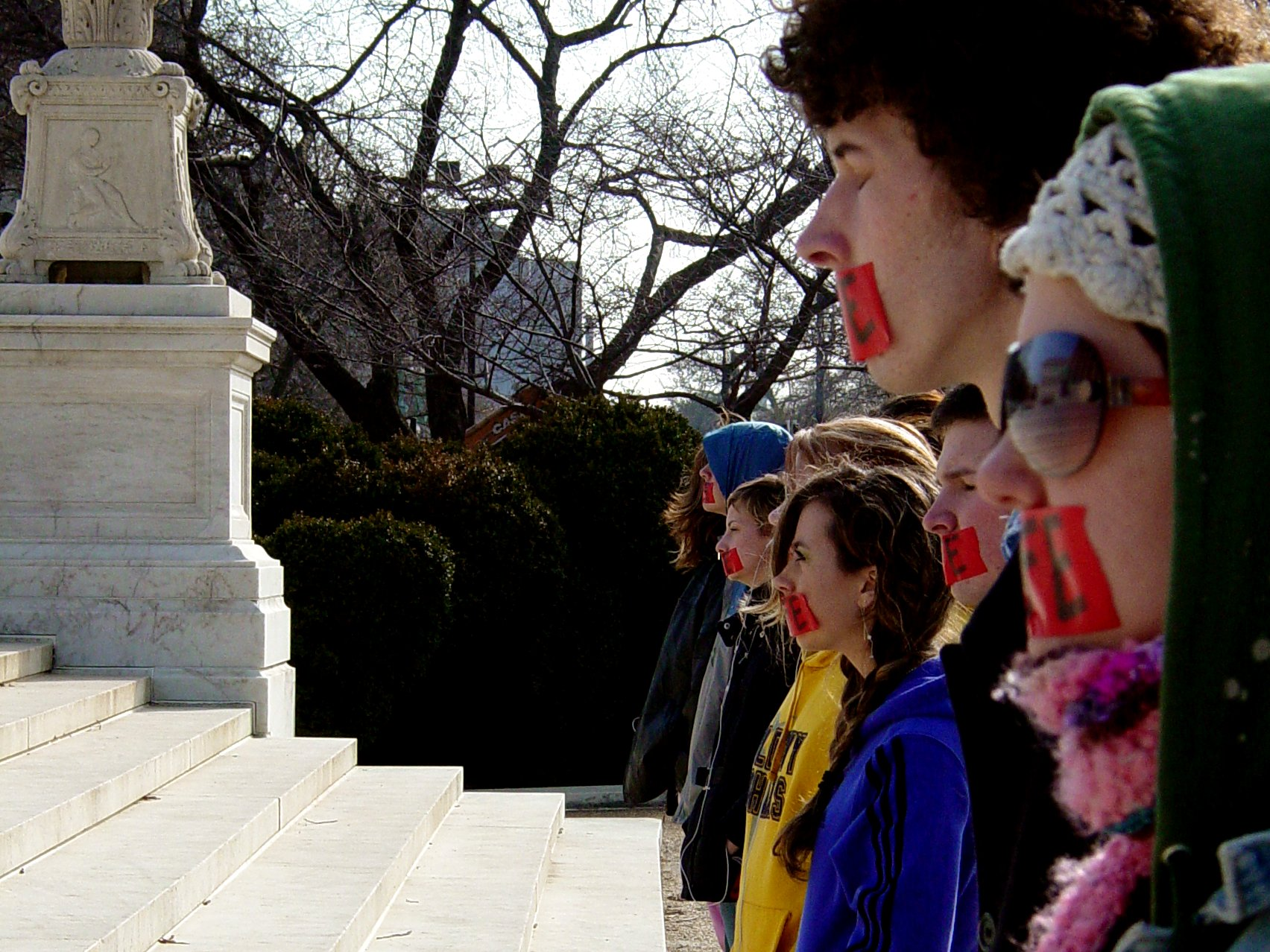 A pro-life group is symbolically gagged during a vigil in front of the Supreme Court in Washington DC.